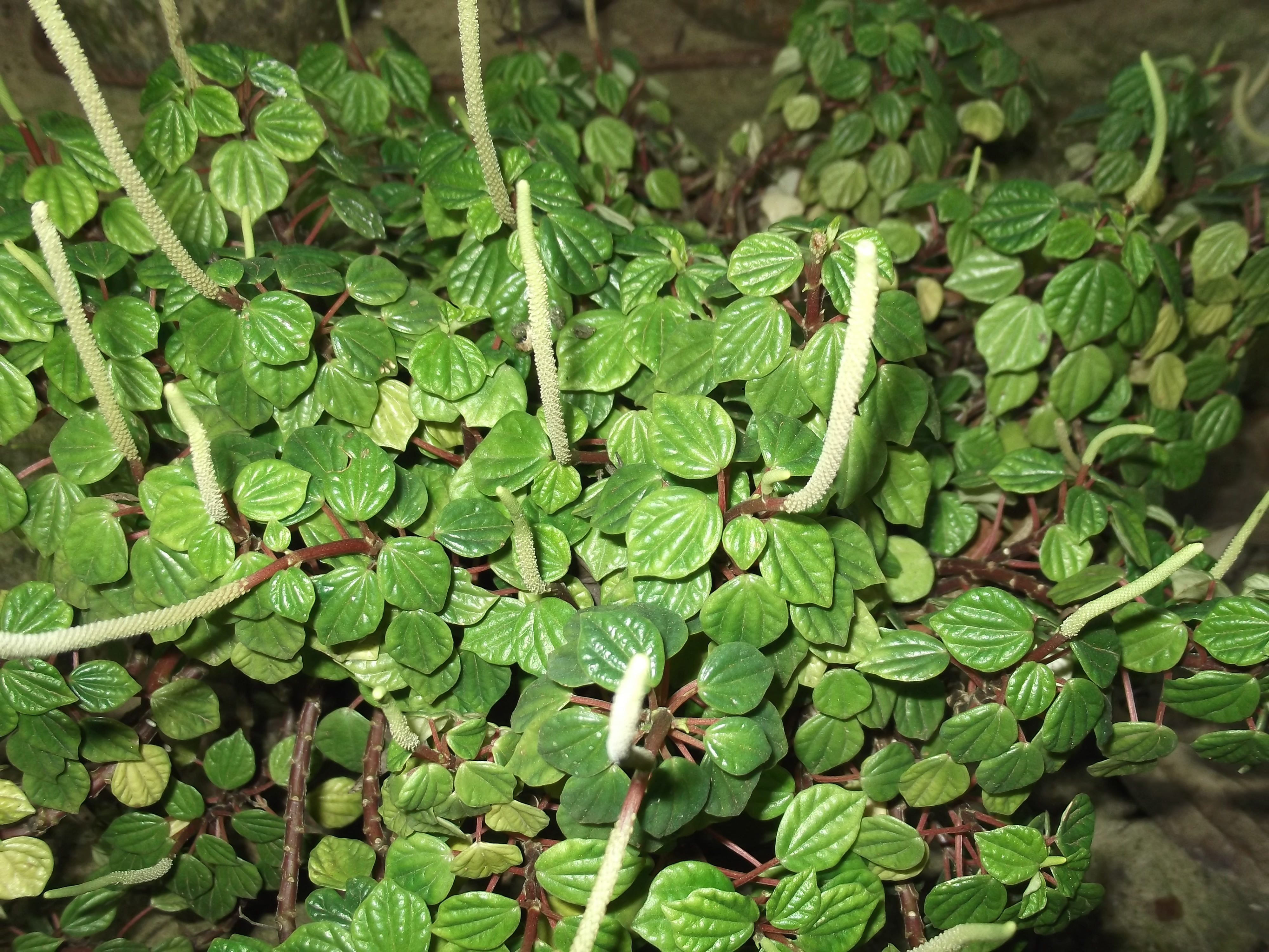 Herb,small leaves,catkin white.